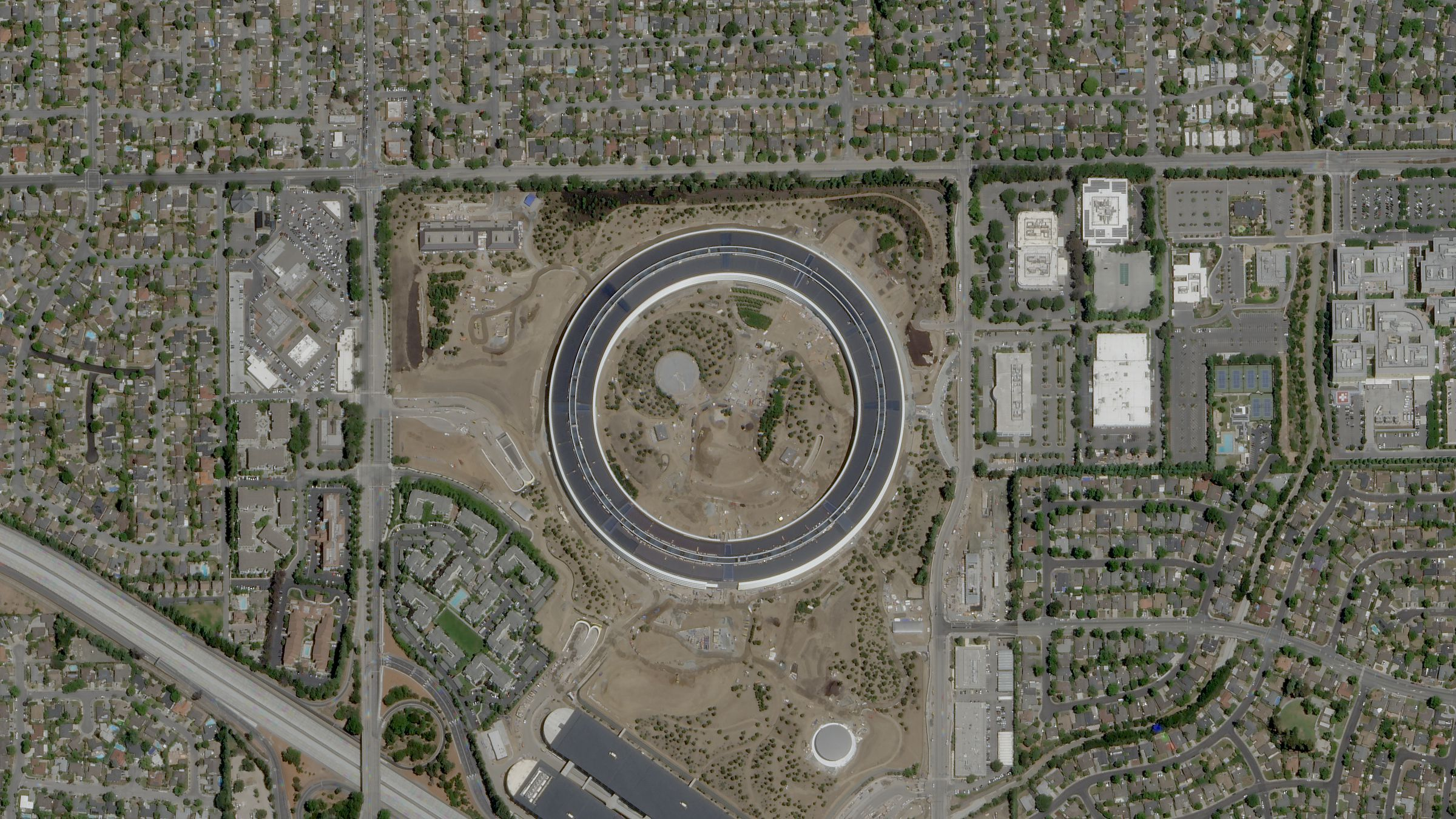 High resolution imaging SkySats capture the construction of Apple's new Cupertino campus from Sept 15, 2015 to May 20, 2017. As the ring is finished, large trees and lawns are laid in the surrounding park. Construction near complete, some landscaping missing